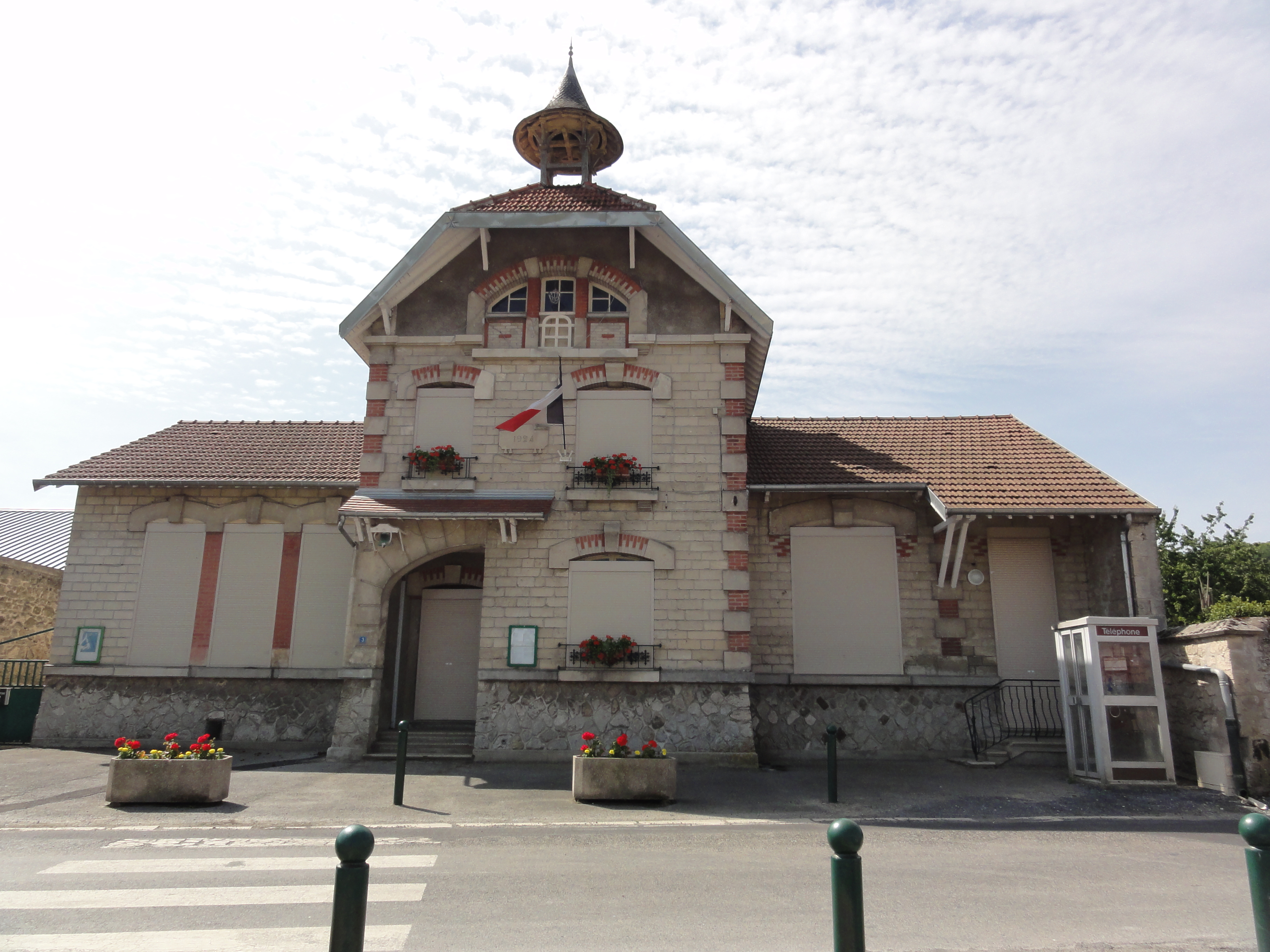 Cys-la-Commune (Aisne) mairie